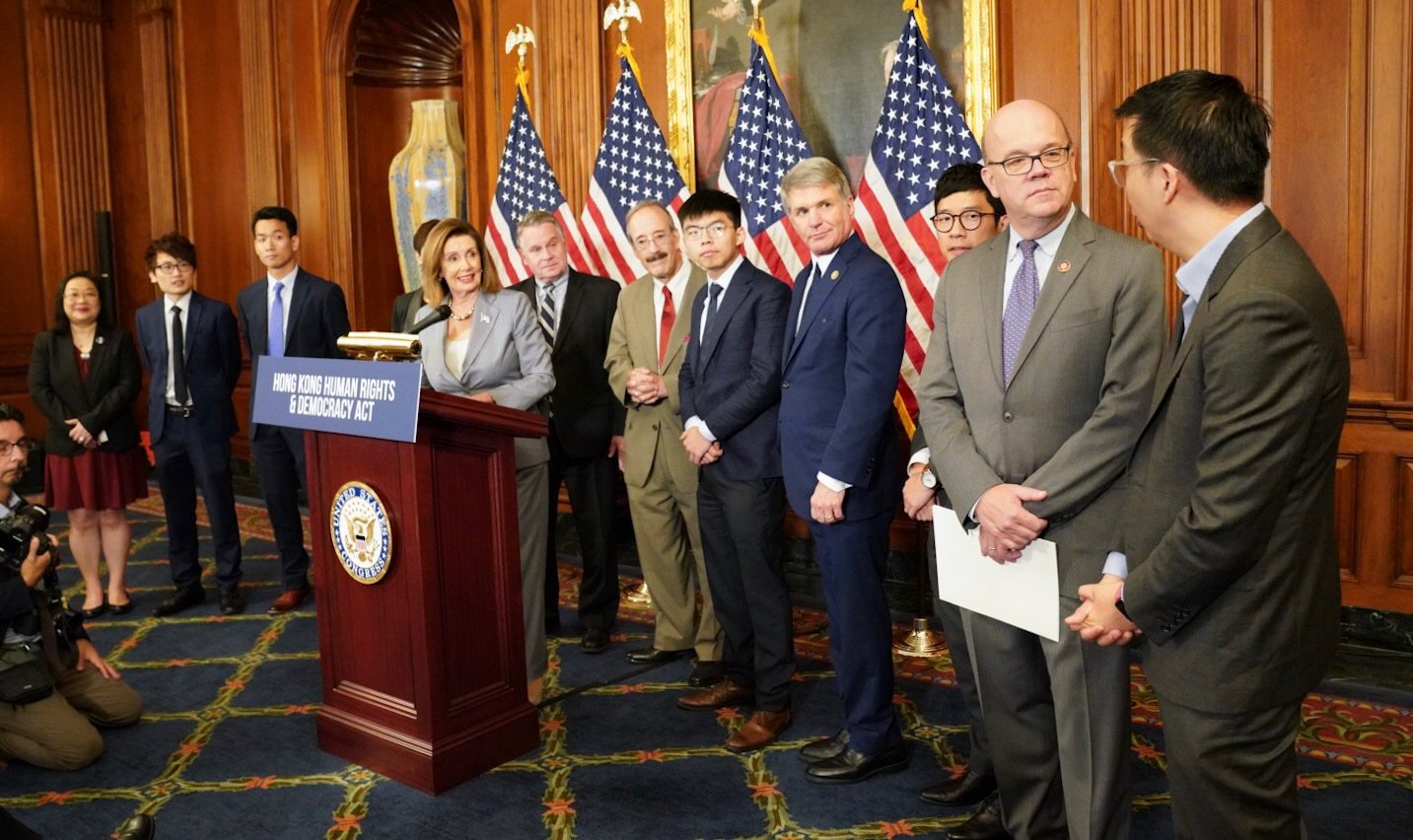 Congress Speaker Nancy Pelosi meets with Joshua Wong and other delegations in the US Capitol on September 18, 2019